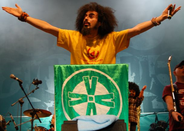 Caparezza jokes about racist people in Italy